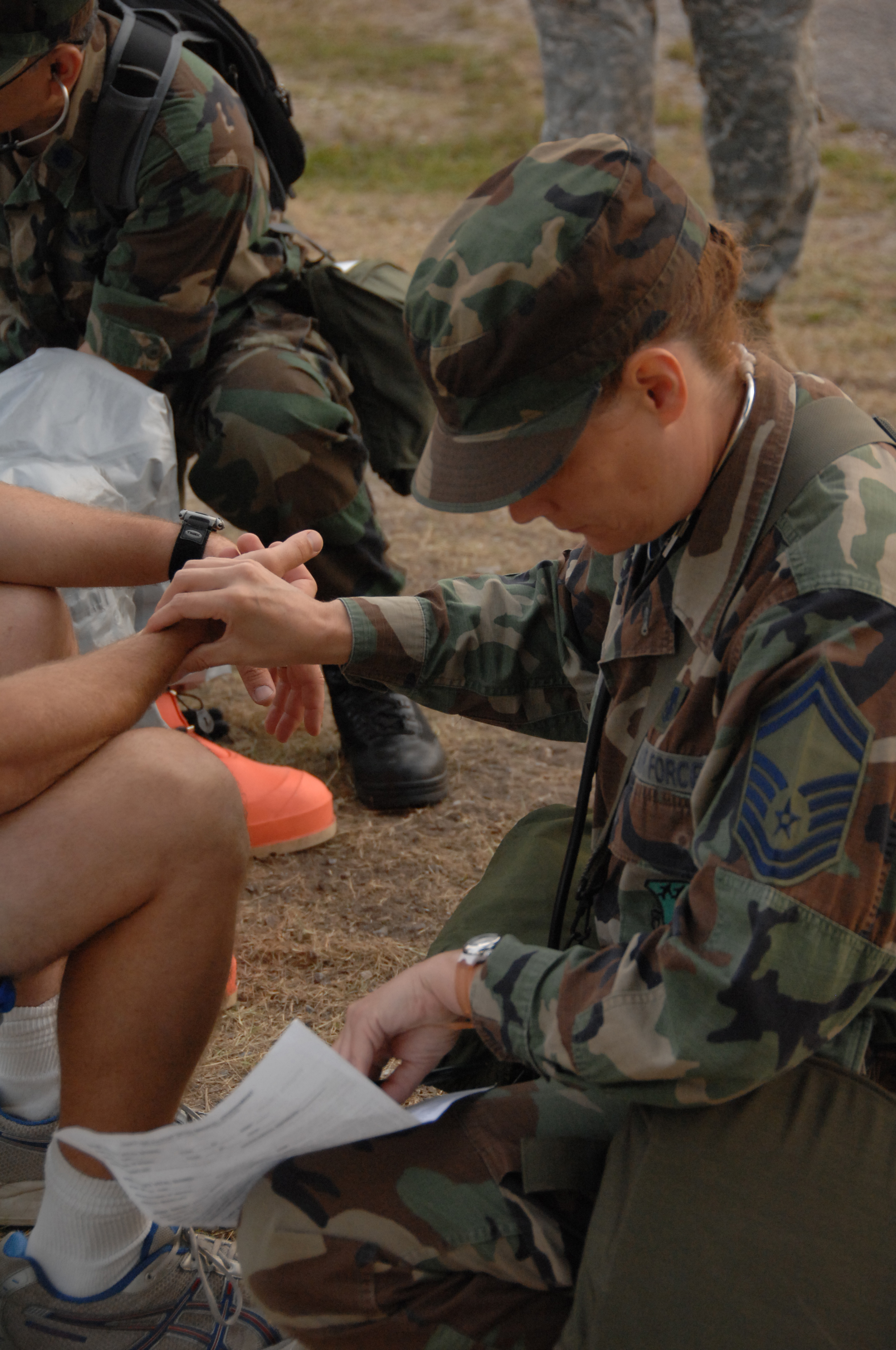 A U.S. Air Force senior master sergeant takes a pulse during a joint training exercise with the U.S. Army involving biological and chemical warfare response, casualty rescue and decontamination at Fort Pickett, Va., June 26, 2008.